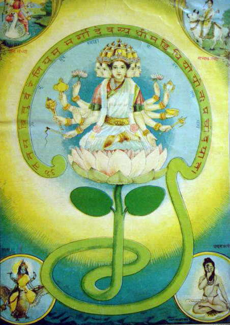 The "Gayatri mantra" has been personified into a goddess, though a relatively obscure and highly textualized one, almost always accompanied by her Sanskrit mantra (bazaar art, 1910's) Source: ebay, Nov. 2006 "According to the sacred texts, The Gayatri is Brahma, Gayatri is Vishnu, Gayatri is Shiva, Gayatri is Vedas. Gayatri later came to be personified as a Goddess. She is another consort of lord Brahma. She is shown as having five heads and is usually seated on a red lotus - this signifies wealth. The four heads of Gayatri represent the four Vedas, the fifth head represents the almighty God. In her ten hands she holds all symbols of Lord Vishnu. The weapons held by the ten hands of Gayatri give a divine protection, desired boon to the aspirant, at the same time all the enemies and bad elements working unfavourably against the devotee are killed."